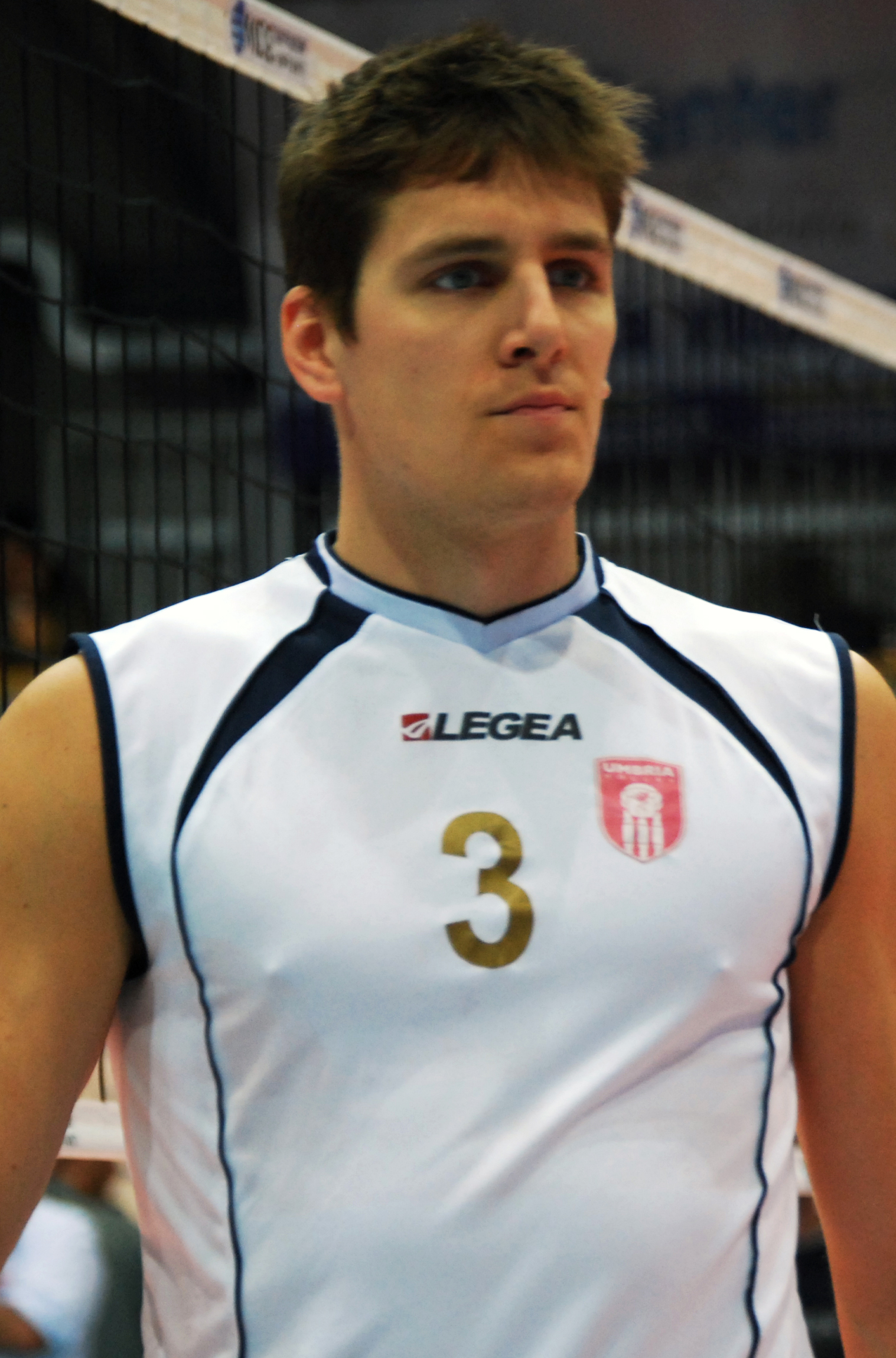 Piacenza-San Giustino